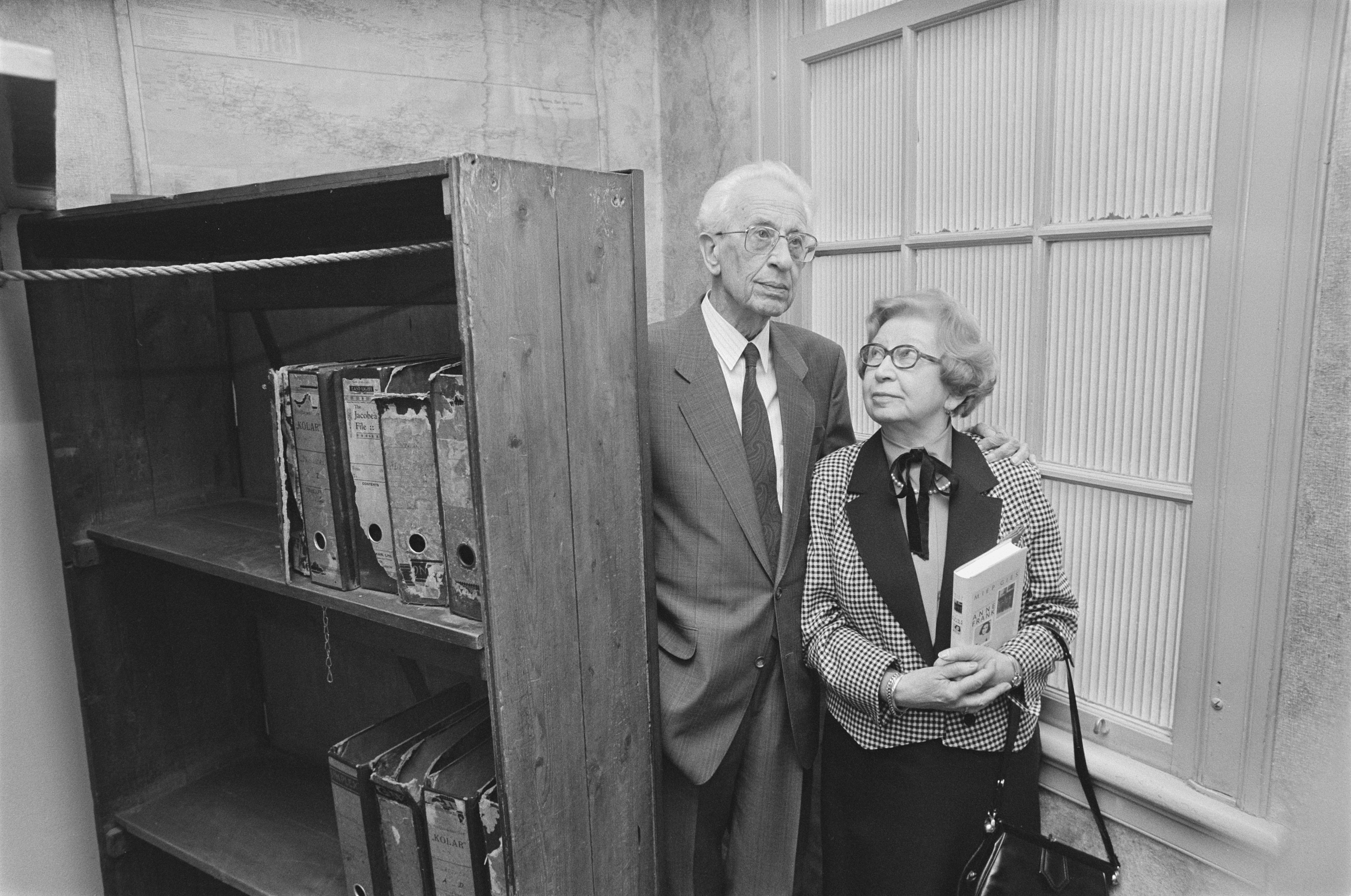 Miep Gies and Jan Gies at the book presentation of Miep Gies: Herinneringen aan Anne Frank (translation: Miep Gies (Author), Alison Leslie Gold: Anne Frank Remembered: The Story of the Woman Who Helped to Hide the Frank Family) near the reconstructed bookcase which hid the entrance to the hiding place ("Achterhuis") of Anne Frank, her family and their friends (1942-1944). Anne Frankhuis, Westermarkt 20, Amsterdam.